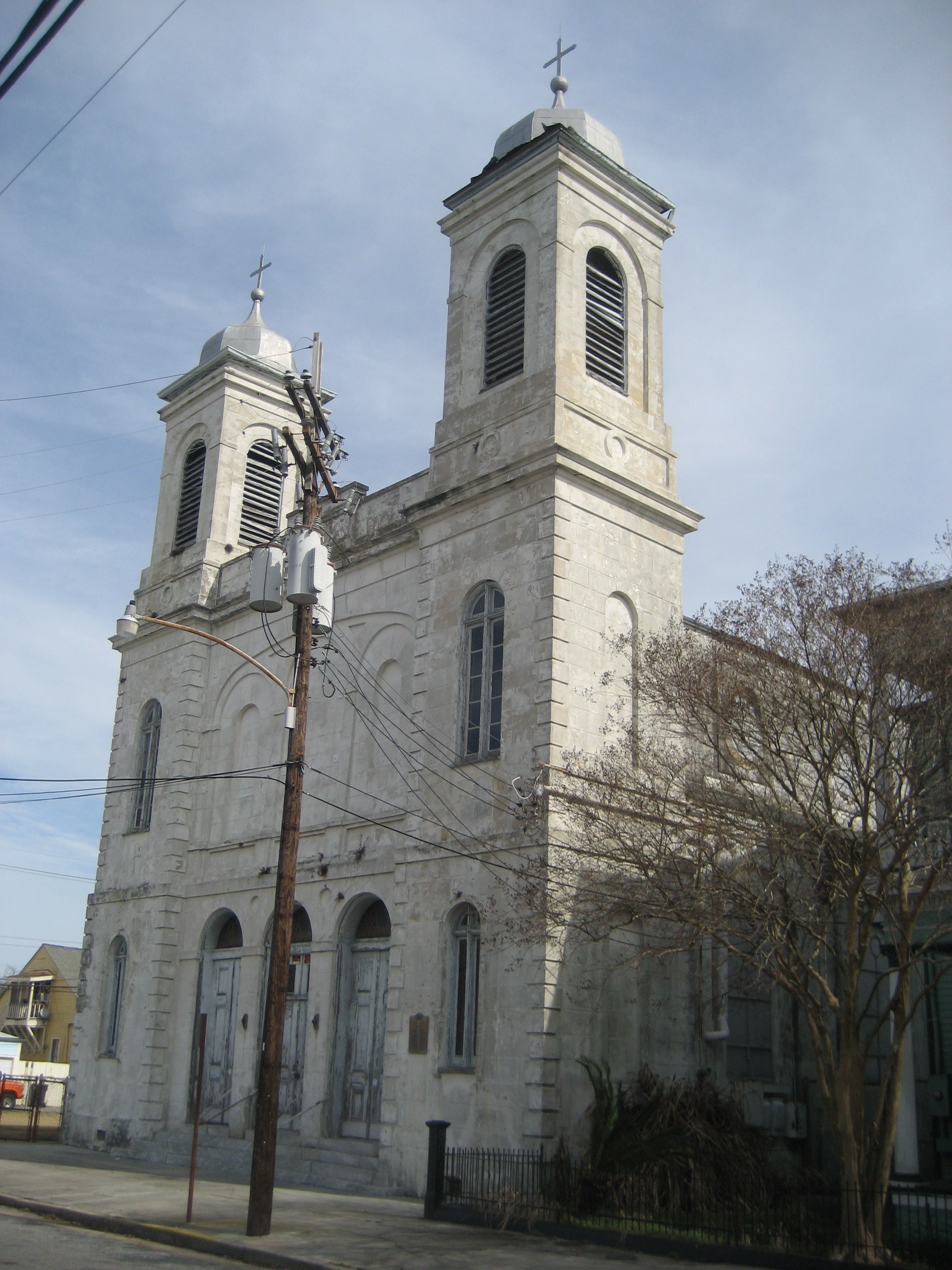 Lower Faubourg Marigny Historic District, New Orleans: St. Ferdinand Street. Holy Trinity Church.